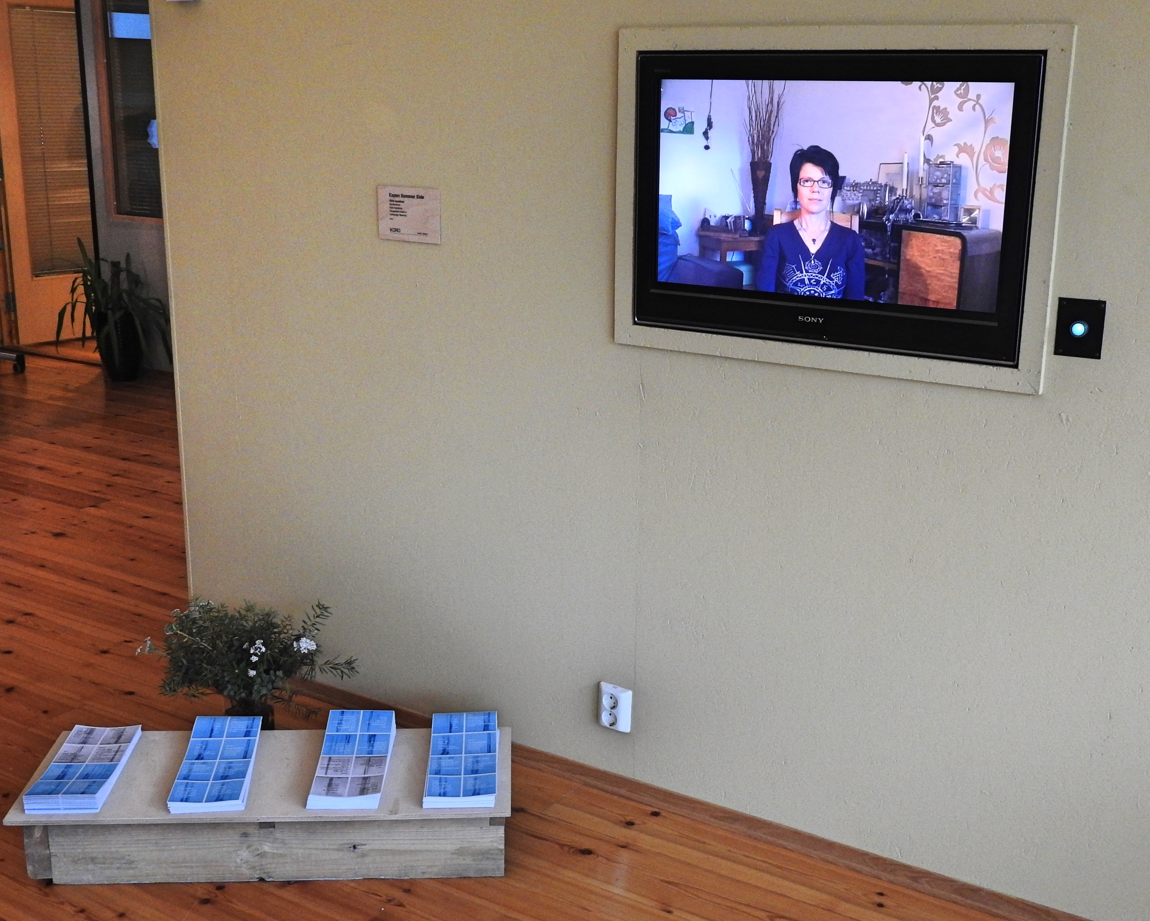 Sprakminne: Audiovisual installation by Espen Sommer Eide at the Äʹvv Skoltsami Museum in Neiden